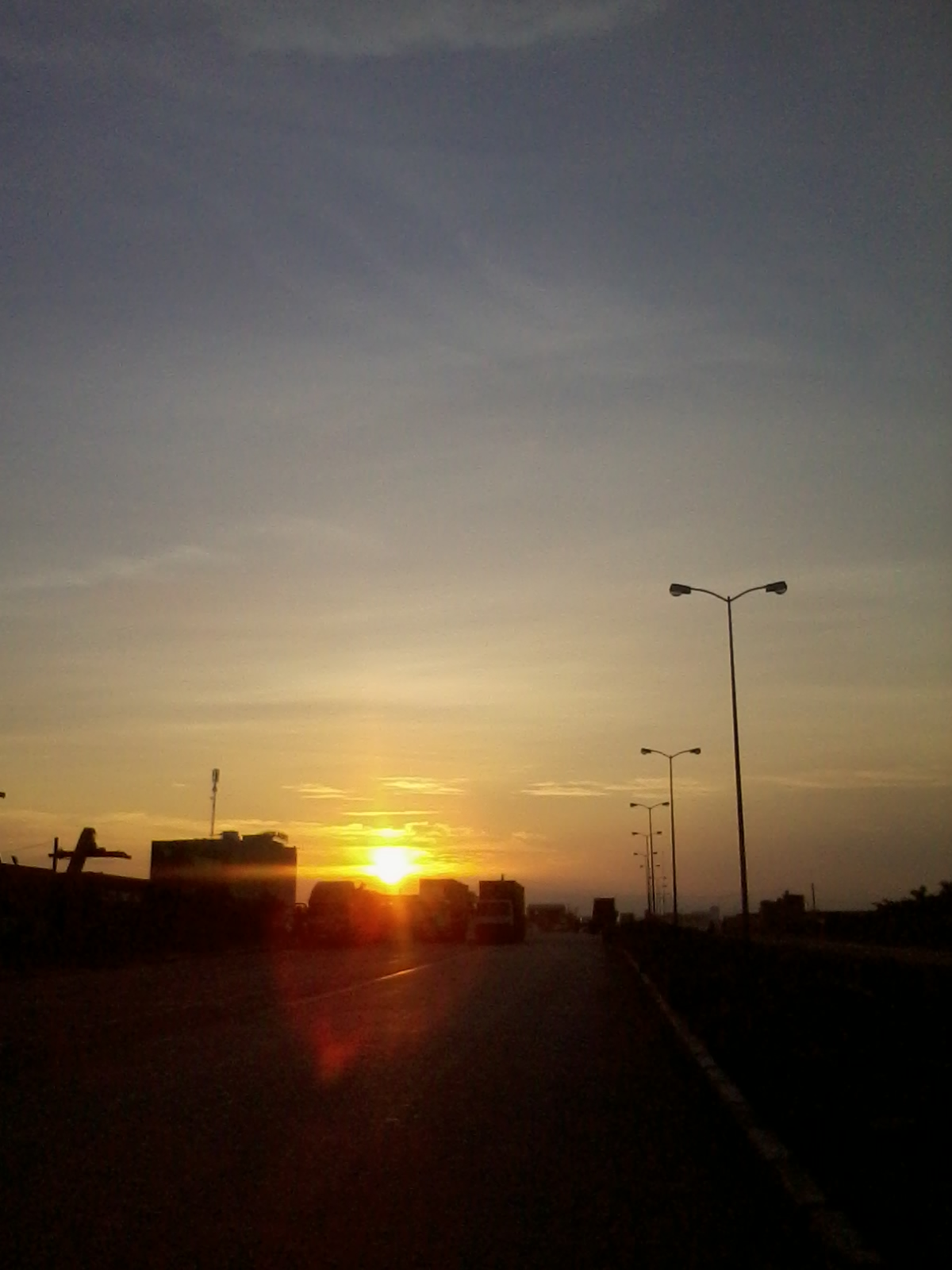 Sunset in the Dinhvu industrial zone, Haiphong city, Vietnam